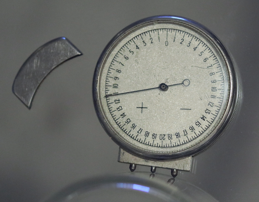 Instrument for measuring curvature or /dioptric powerof a lens used for example by optometrists.